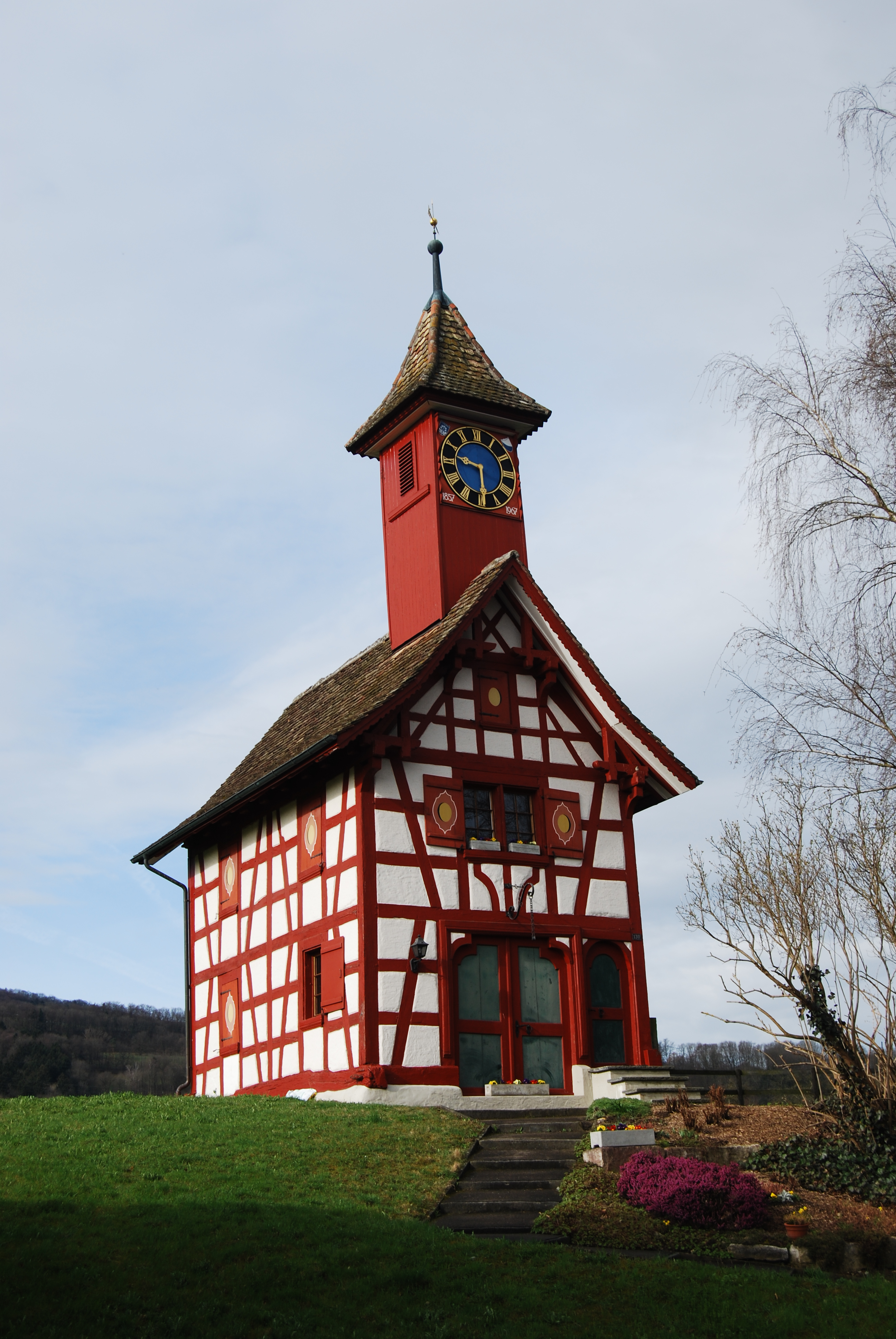 Zythüsli, timber framing construction at Schleinikon, canton of Zürich, SwitzerlandEsperanto: Zythüsli (tempodometo), faktrabkonstruaĵo en Schleinikon, Kantono Zuriko, Svislando